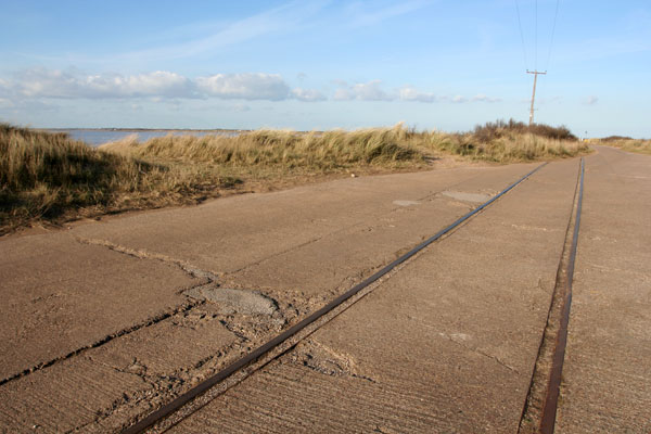 Remains of old military railway, Spurn Point, East Riding of Yorkshire, England.